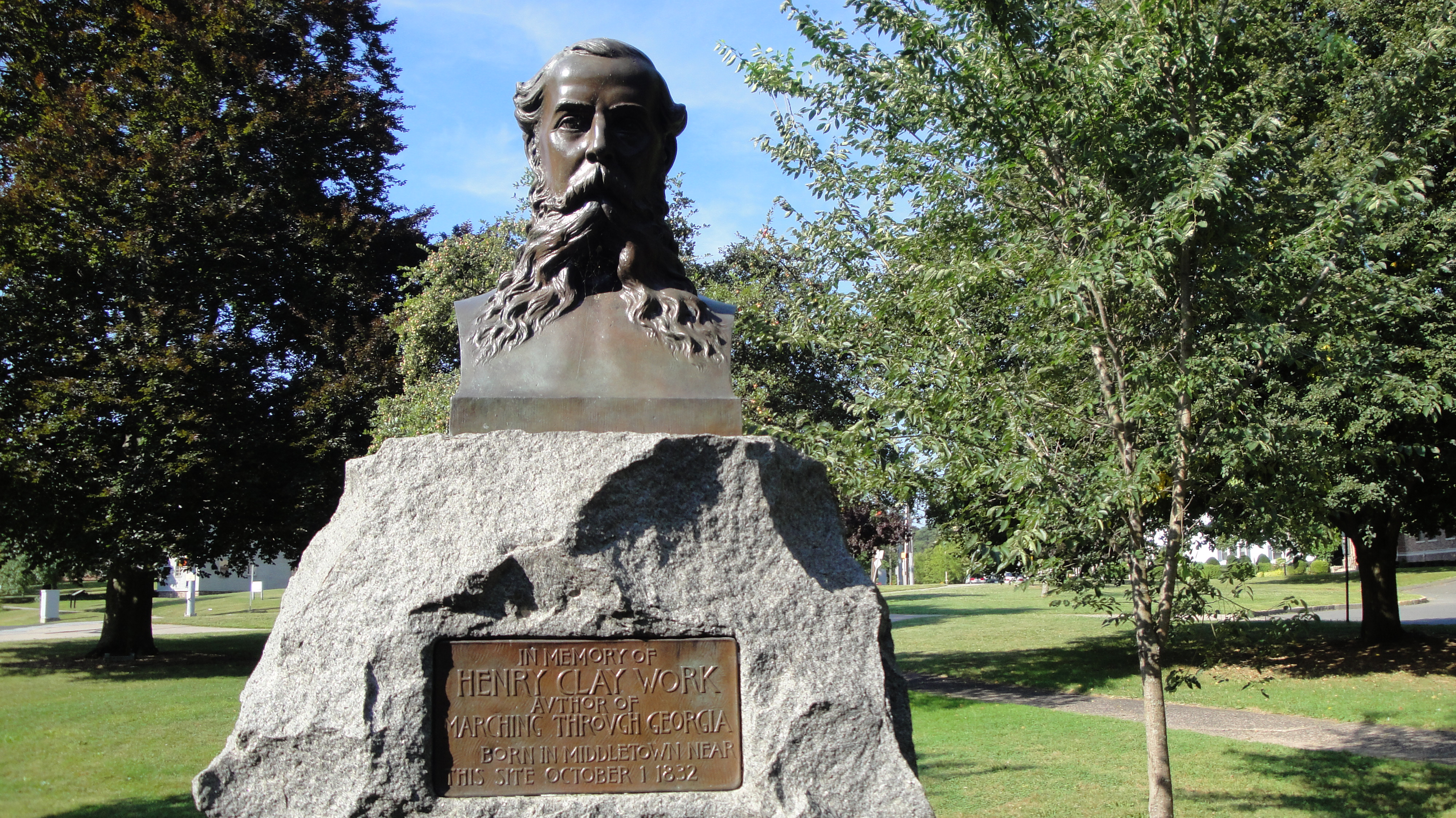 Bust of composer Henry Clay Work on the city green (Union Park) in Middletown, CT, near to his birthplace.